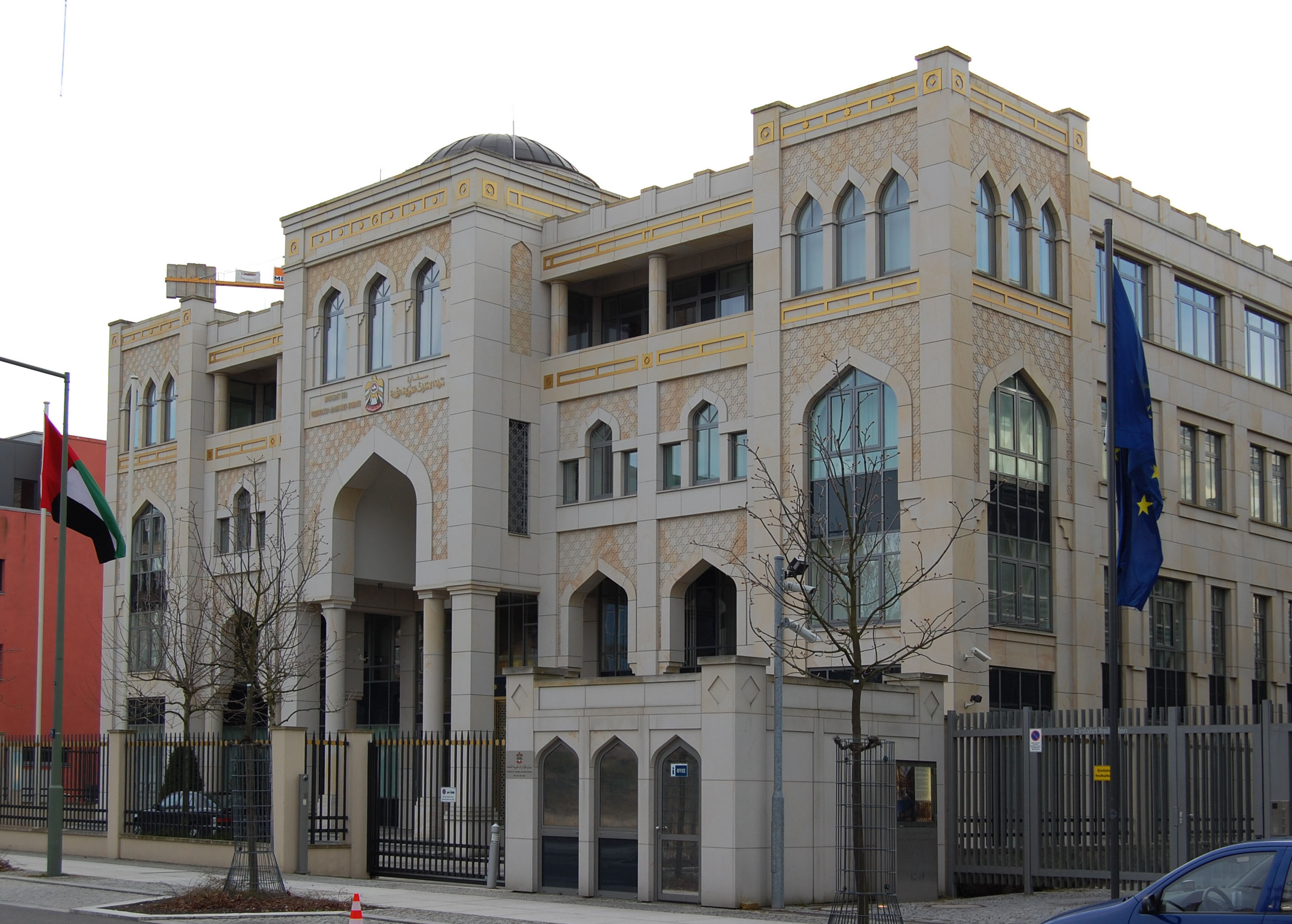 Embassy of the United Arab Emirates in Berlin